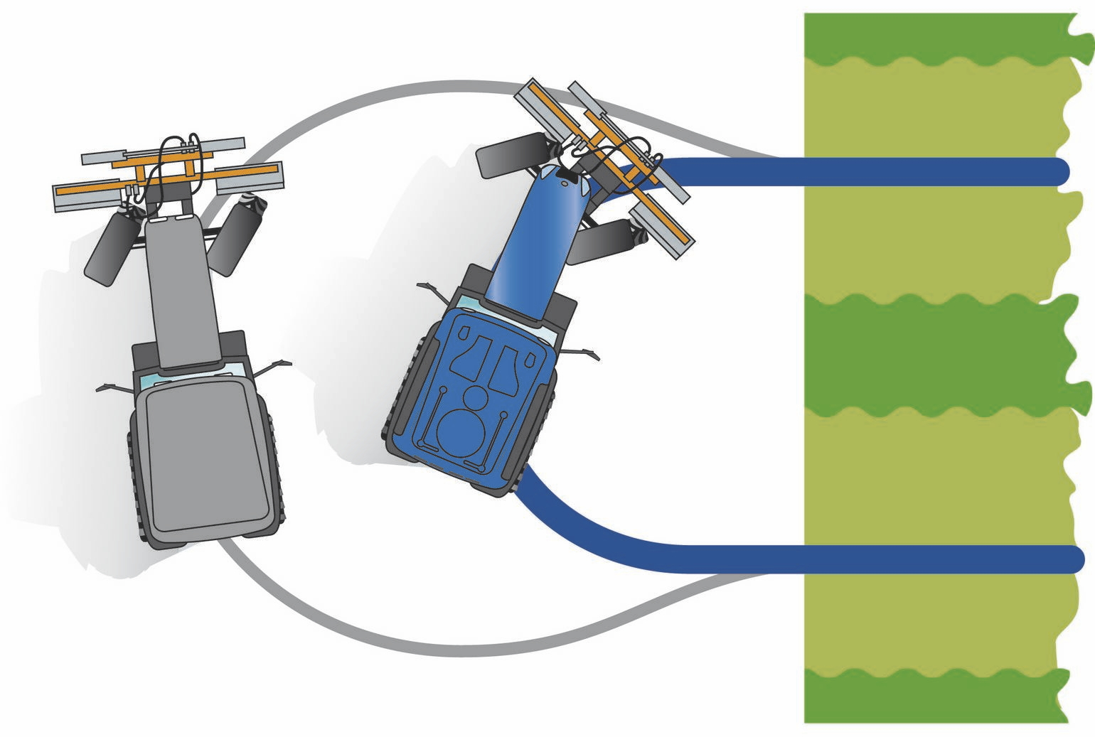 This illustration represent how the New Holland Super Steer system is working through the representation of two tractors turning, one with Super Steer and another one without.